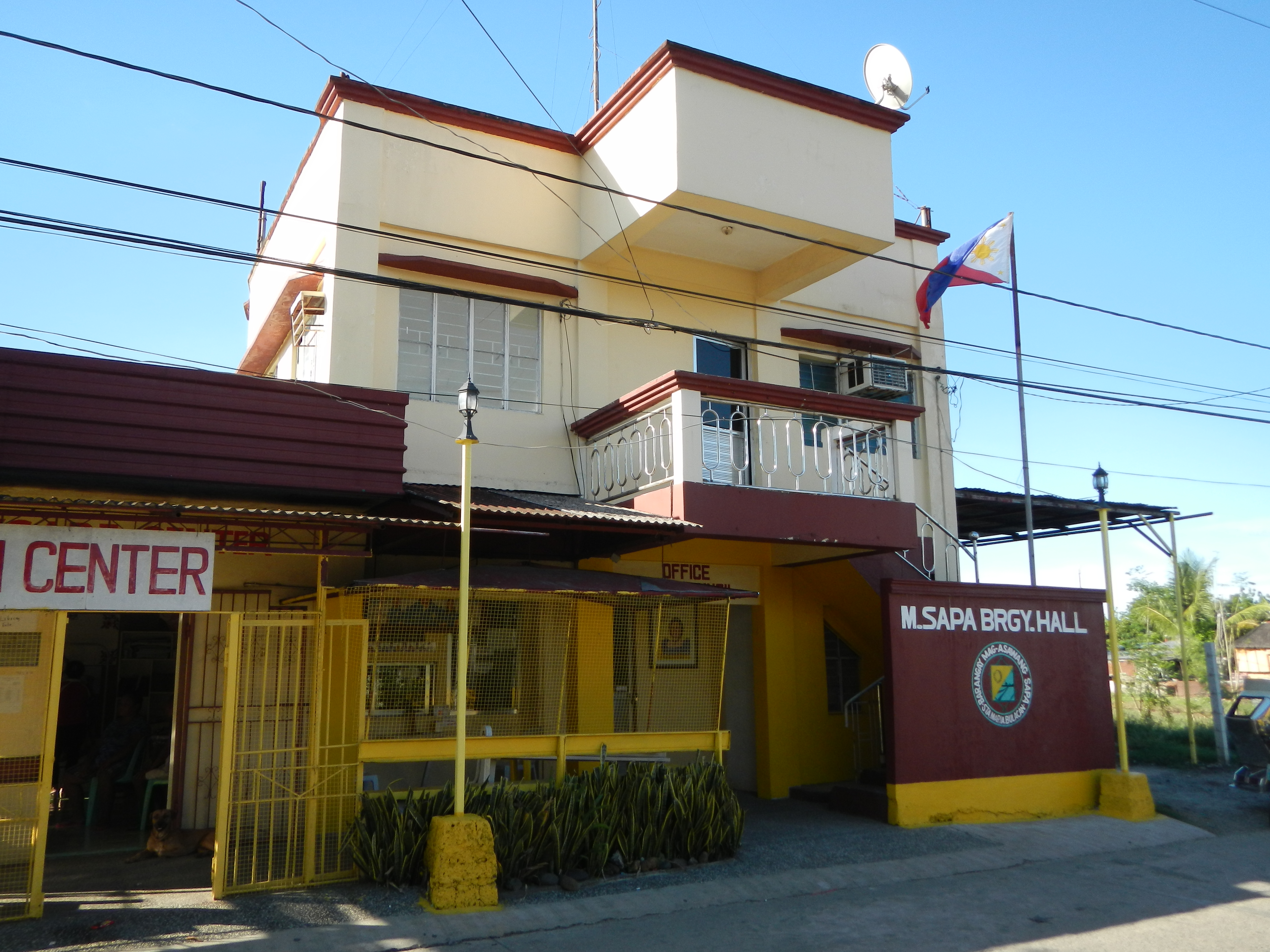 Mag-asawang Sapa, Bulacan in Santa Maria, Bulacan Barangay Hall, logo, Chapel Welcome arch and Welcome road-sign of Barangay Mapulang Lupa, Pandi, Bulacan which demarcates and separates from the adjoining Barangay Mag-asawang Sapa, Bulacan in Santa Maria, Bulacan from next town of Pandi, Bulacan.